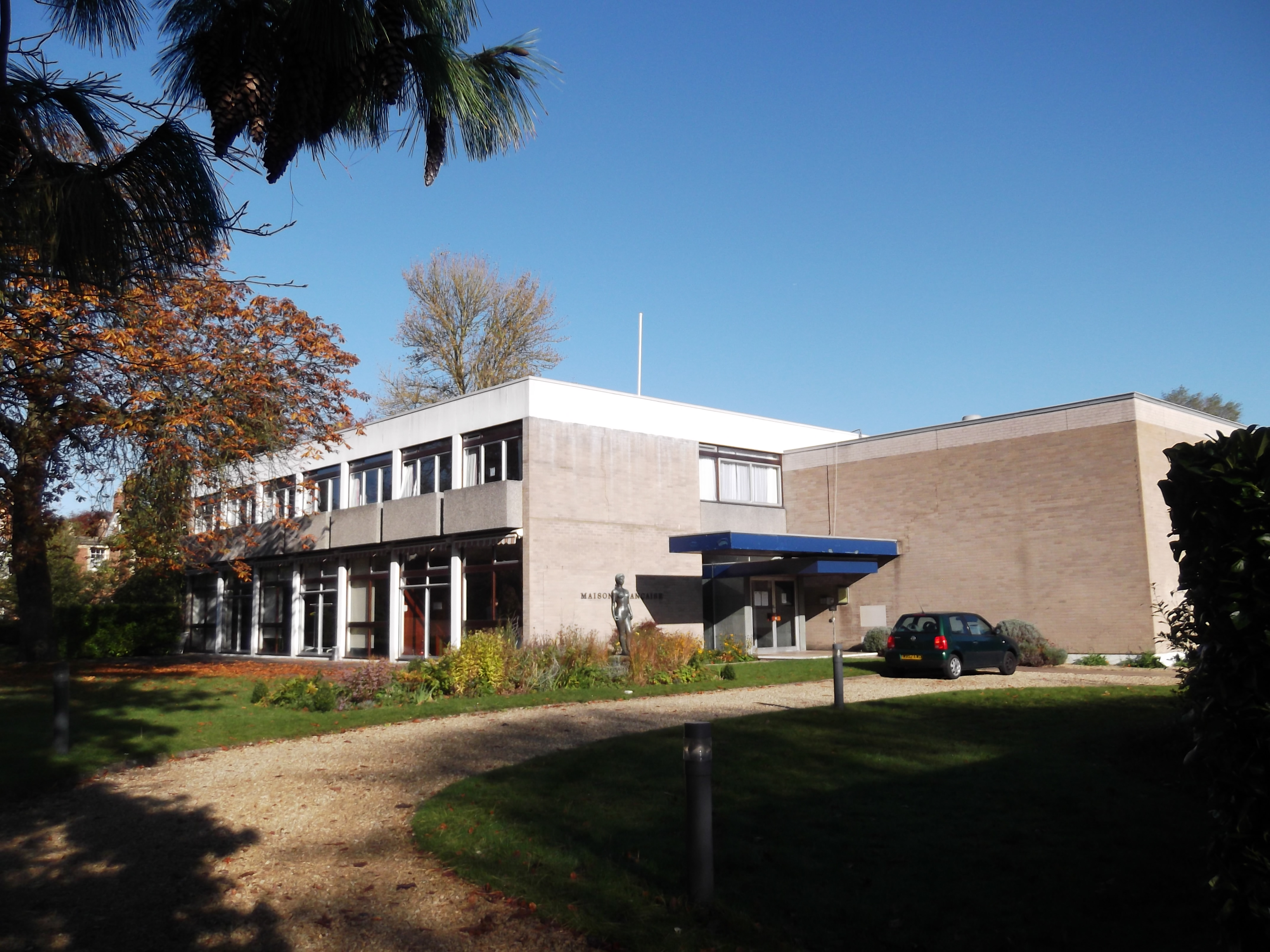 Maison Française d'Oxford, a French research centre in north Oxford, England.